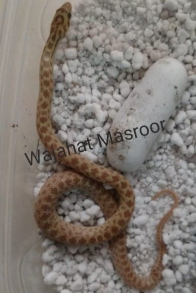 Captive born specimen of red spotted diadem in captivity by an individual reptile breeder (Wajahat Masroor) in Karachi,Pakistan